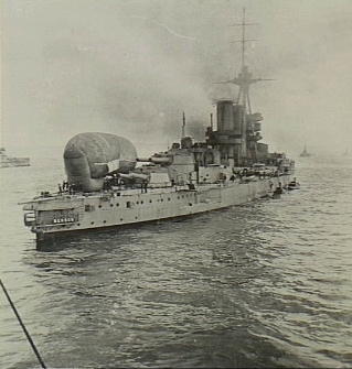 AWM caption : "England. c. 1916. A partially inflated observation balloon is tethered to the deck of the battleship HMS Benbow. Amongst the naval personnel viewing the balloon during the feasibility trials are members of the Royal Naval Air Service."